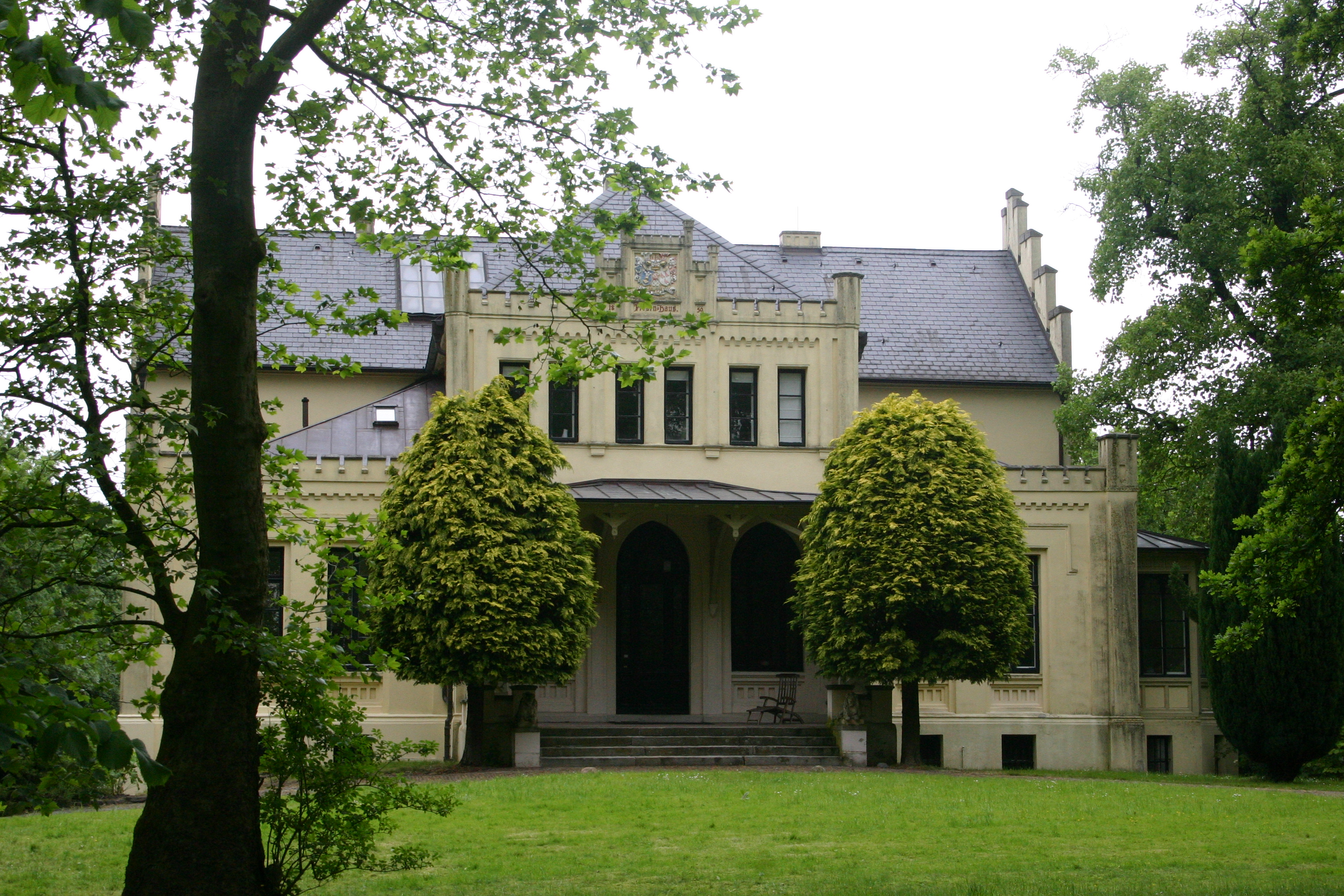 "Palace" in Loppersum, district of Aurich, East Frisia